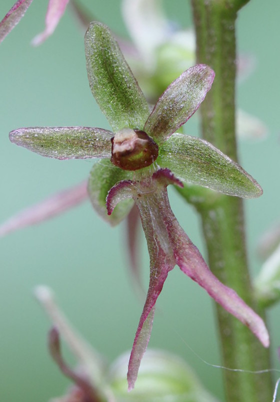 Flower of Neottia cordata.